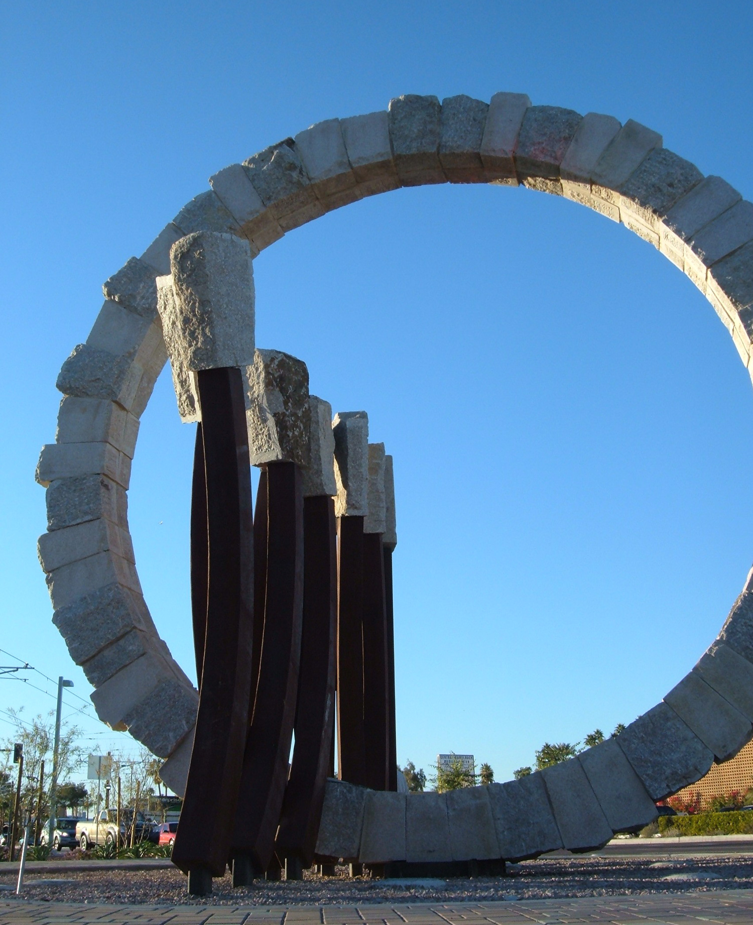 Photograph of the artwork sculpture Landmark (The Crossing) by Ilan Averbuch at the Uptown Phoenix Station of METRO Light Rail that serves the Phoenix area, Arizona, USA. This photograph was taken on December 29, 2008.